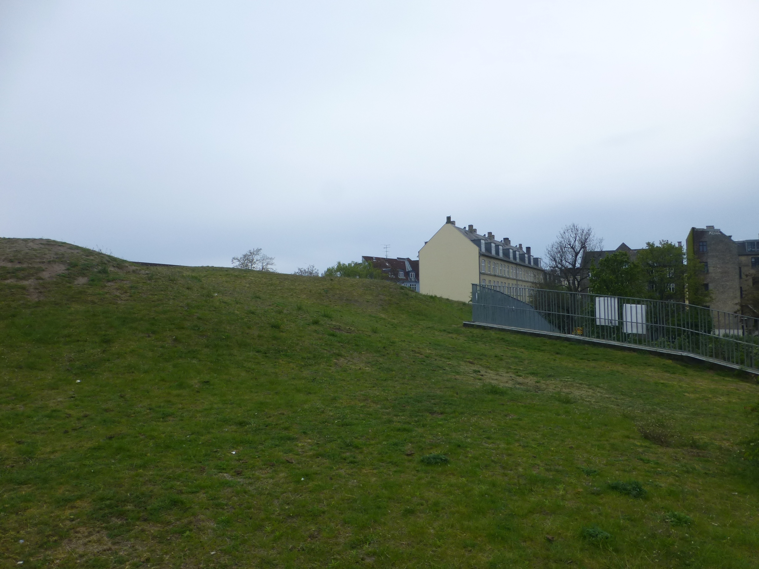 The artificial hill above the sport venue Korsgadehallen in Nørrebro in Copenhagen.